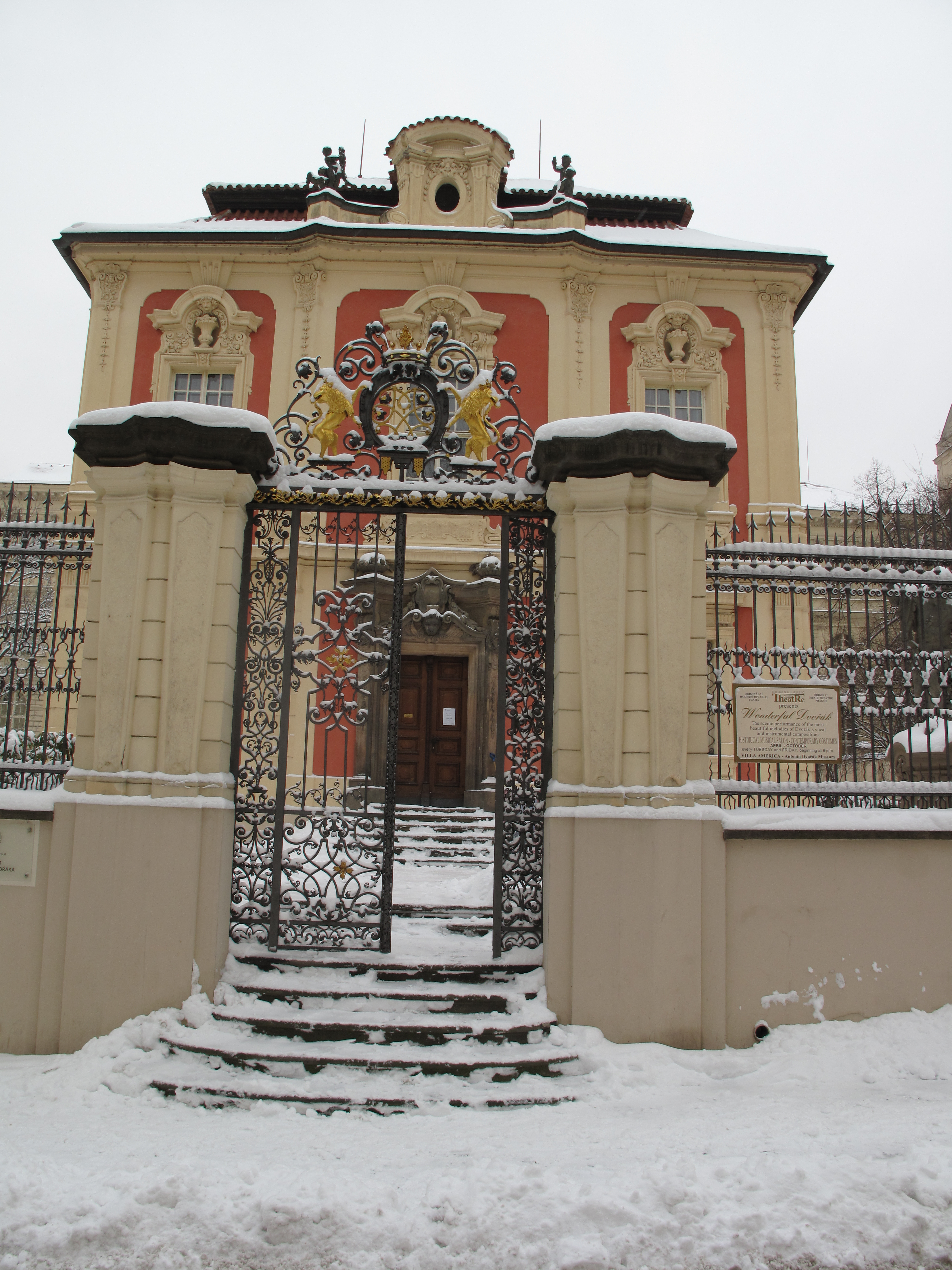 Museum of Antonín Dvořák as seen from the street Ke Karlovu, Prague - New Town, Czech Republic.